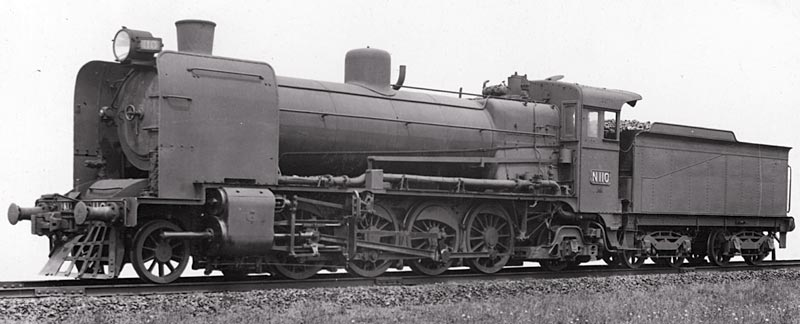 Official VR photograph of N class locomotive No. N 110, after fitting of booster engine (in 1927) and Modified Front End (in 1936), but before removal of booster in 1945 and later renumbering to N 419 in 1950. Note steam pipes to booster mounted on the rear trailing axle, smoke deflectors, and revised "flowerpot" funnel in place of original ornate cast iron funnel. Digital copy reproduced with permission of Mark Bau.